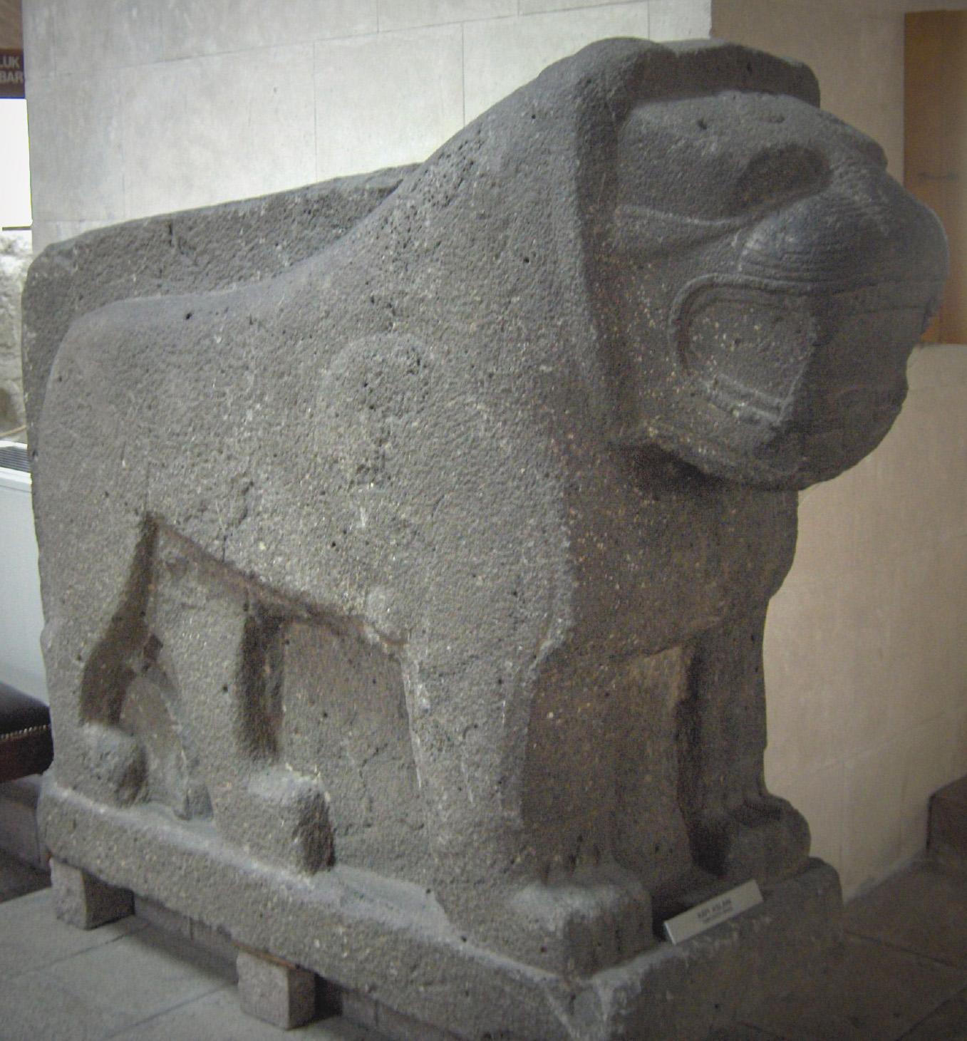 Basalt gate-lion from Havuzköy, Turkey; Neo-Hittite style; Museum of Anatolian Civilizations, Ankara, Turkey